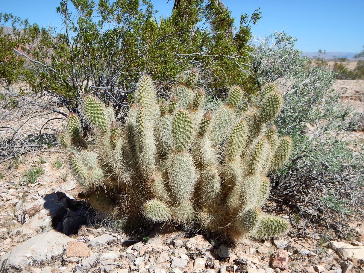 Opuntia diploursina growing north of Lake Mead Recreation Area, Nevada. March 2015